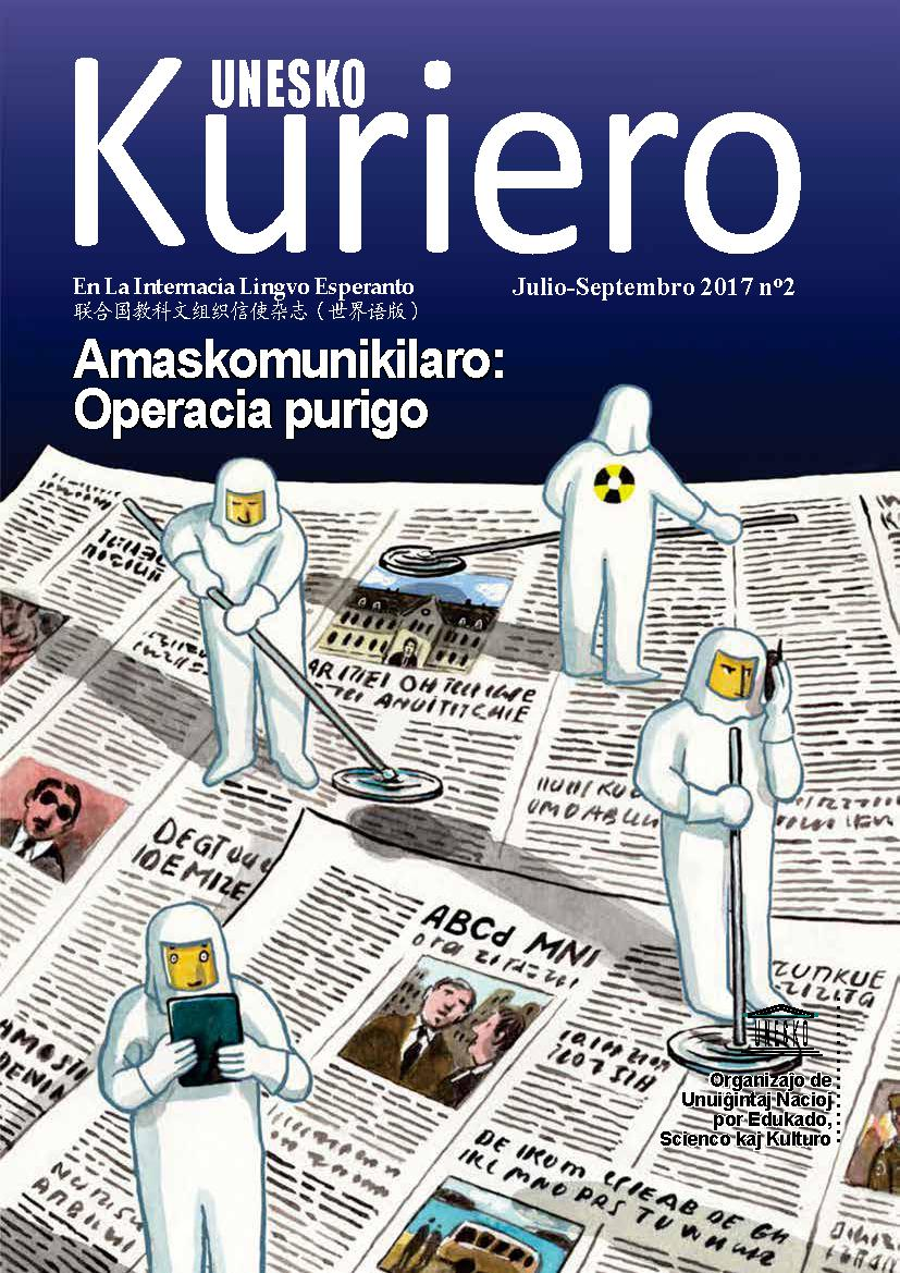 Cover of the July-September 2017 issue of the magazine Unesko-Kuriero, publication of the World Esperanto Association.